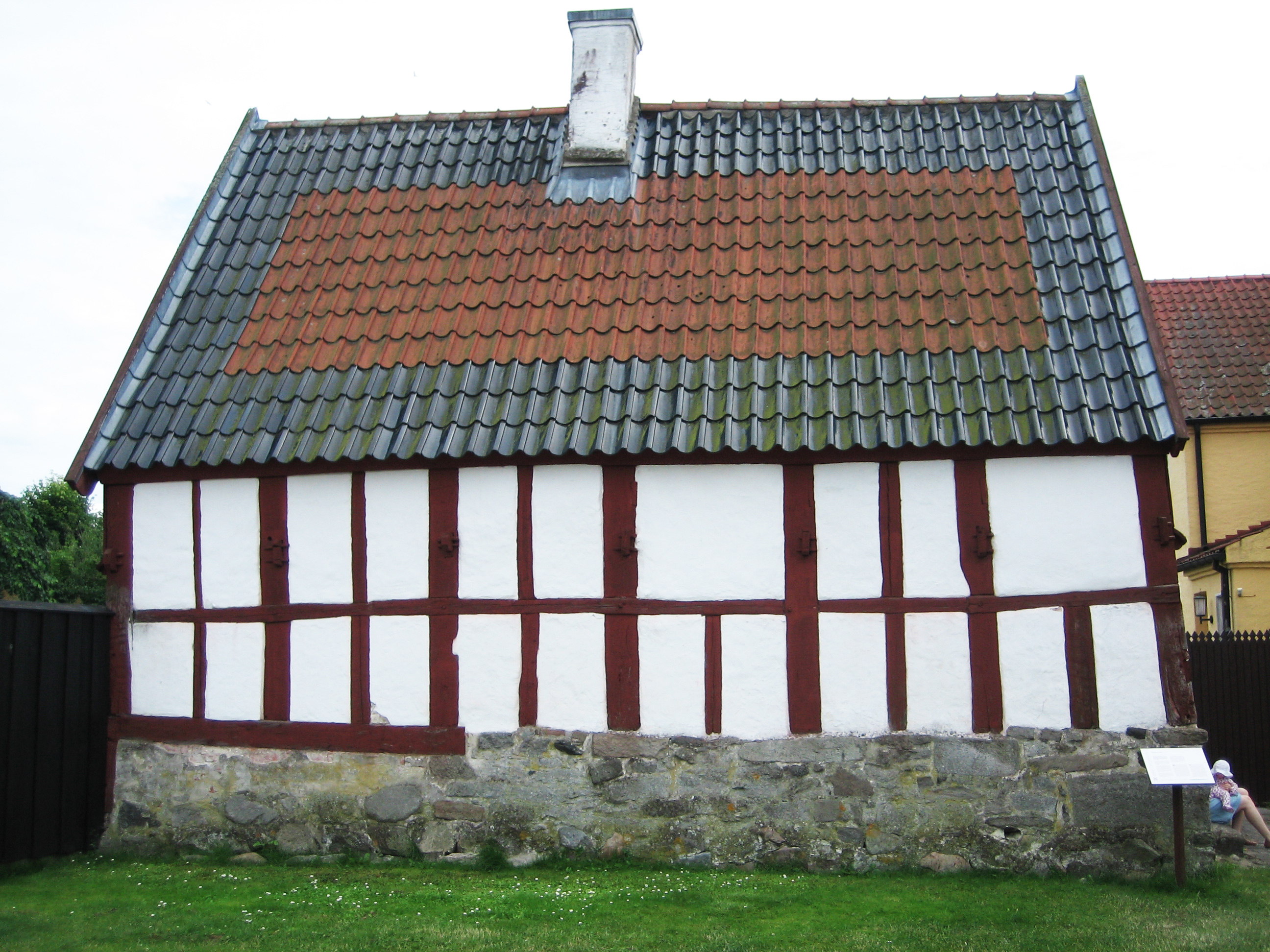 Casten Rönnow's (1700–1787) Kungsstugan, Åhus, Skåne, Sweden.